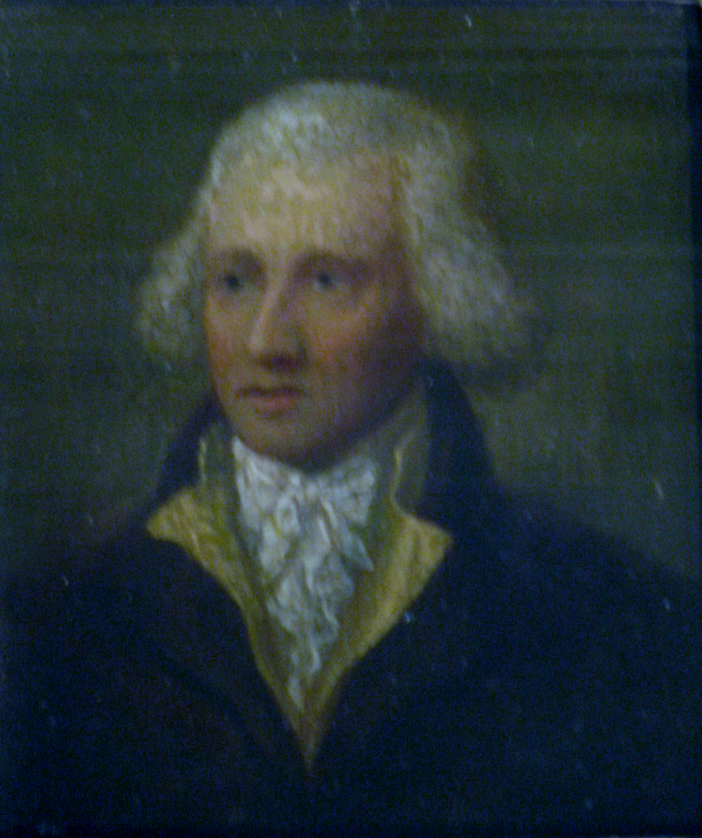 James Rumsey ca. 1790 Attributed to George William West Born: St. Andrew's Parish, Maryland 1770 Died: 1795 oil on wood 4 7/8 x 4 1/8 in. (12.4 x 10.5 cm) rectangle Smithsonian American Art Museum Bequest of Eugene A. Rumsey and Brothers 1957.11.2 Smithsonian American Art Museum 3rd Floor, Luce Foundation Center